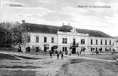 The Korona Hotel in Lendava (1910s). g